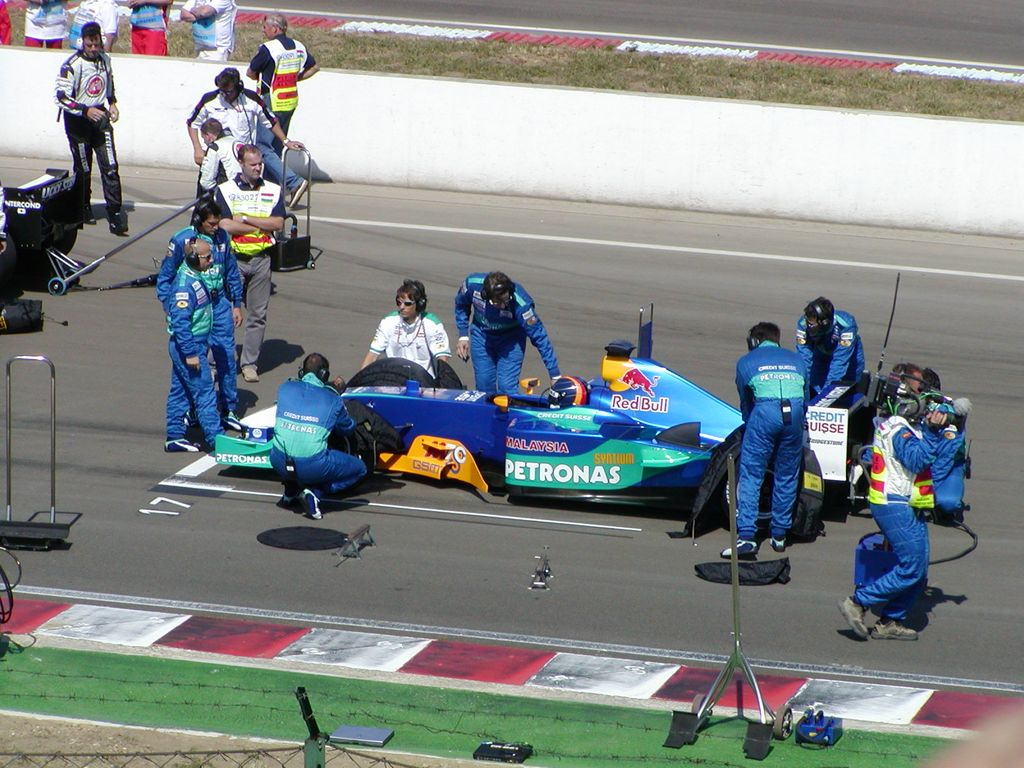 Sauber at the start grid at the 2003 Hungarian Grand Prix.